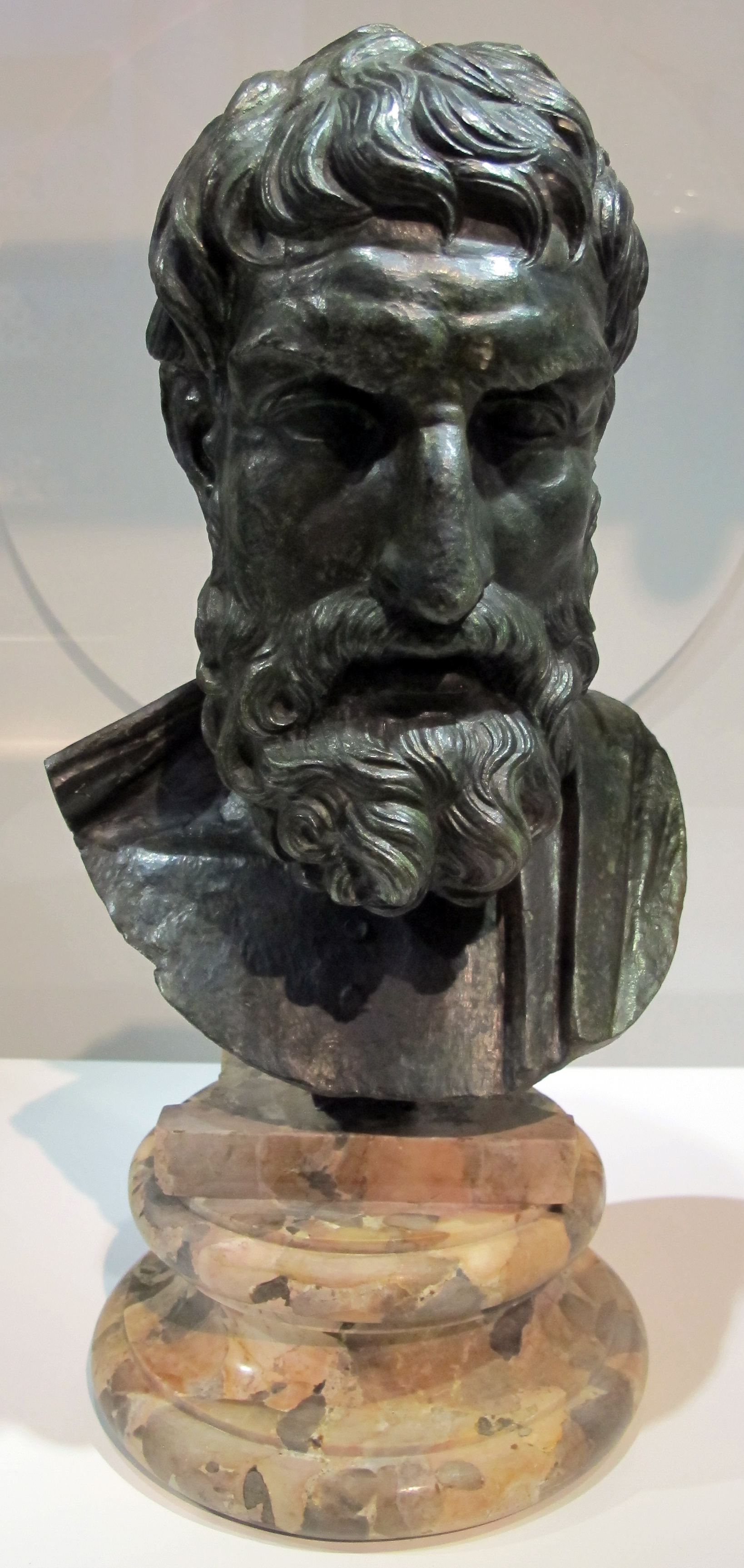 Ancient Libraries Exhibition (Colosseum, 2014)